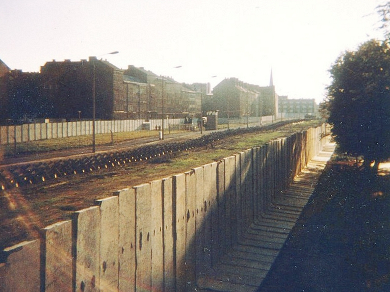 Modernizing the Berlin Wall at Bernauer Street (September 1980)